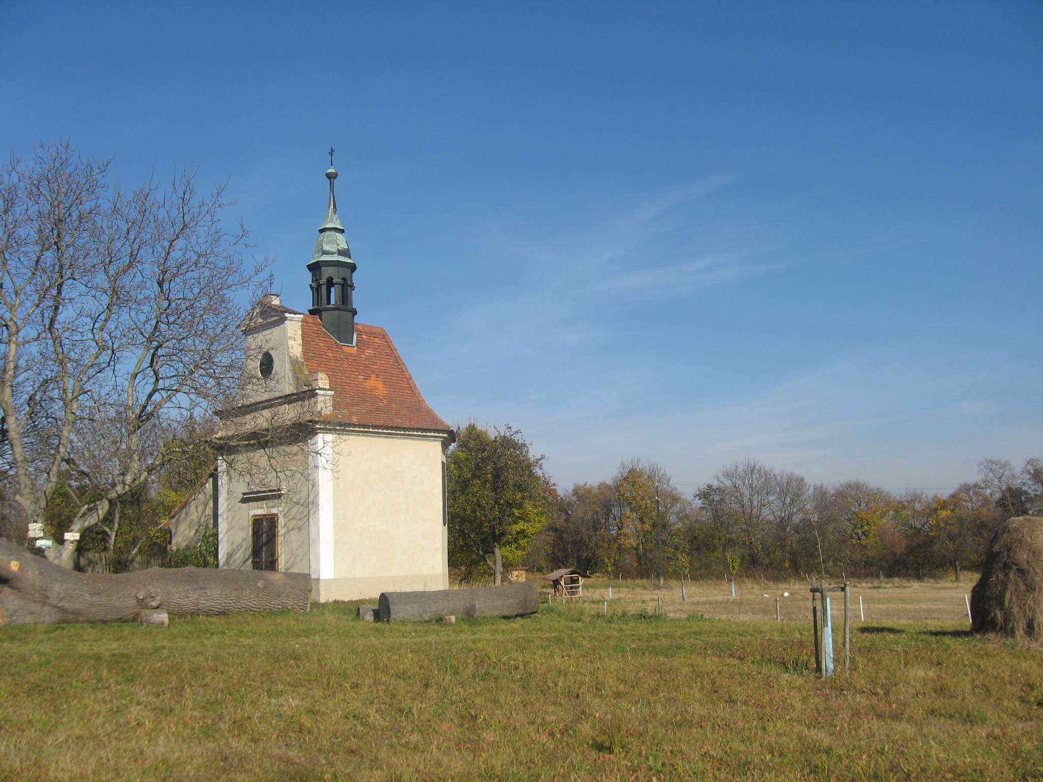 The church of St. Vaclav in Drevic in Czech Republic